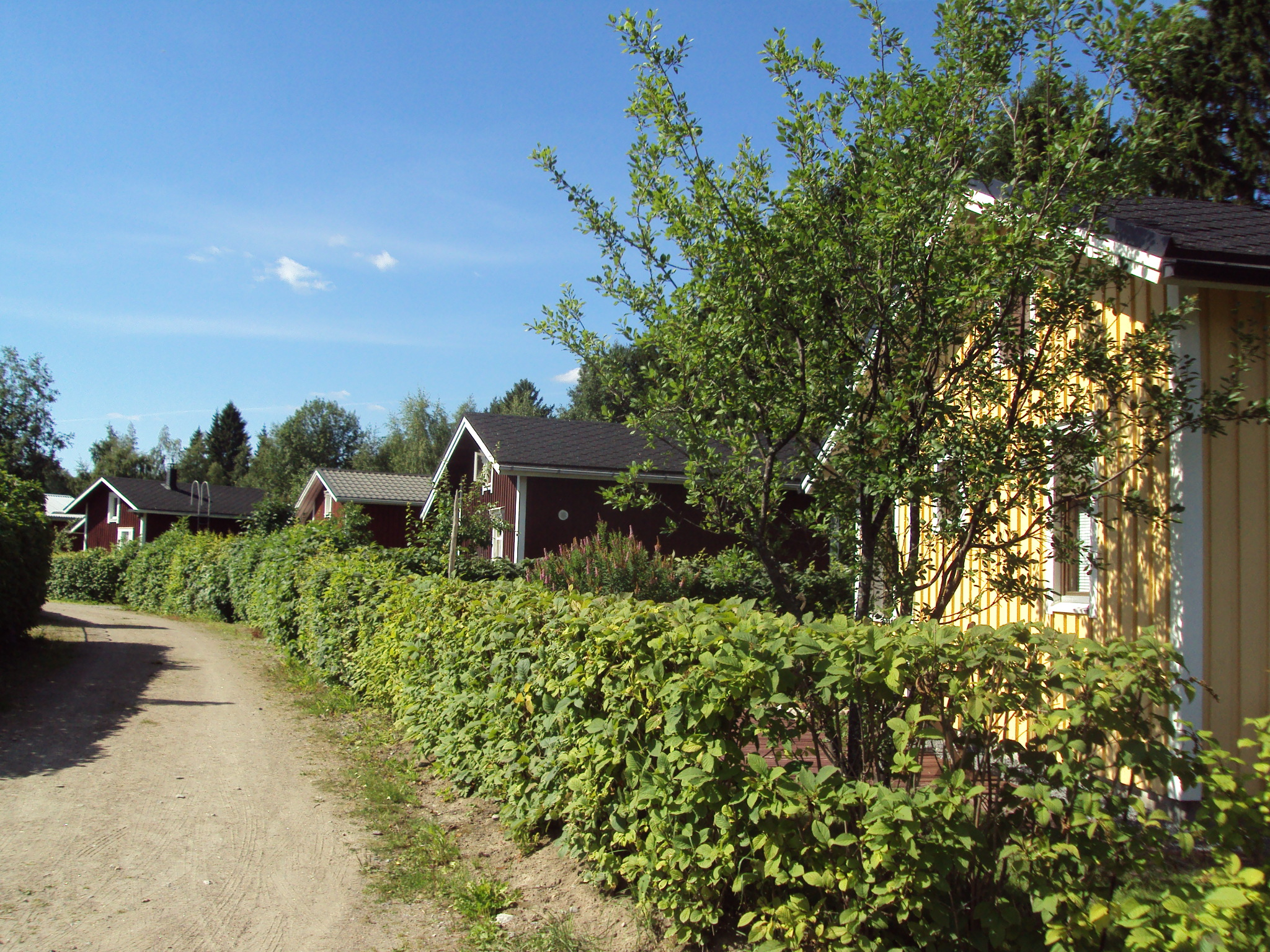 Sulkuranta allotment garden, Jyväskylä, Finland